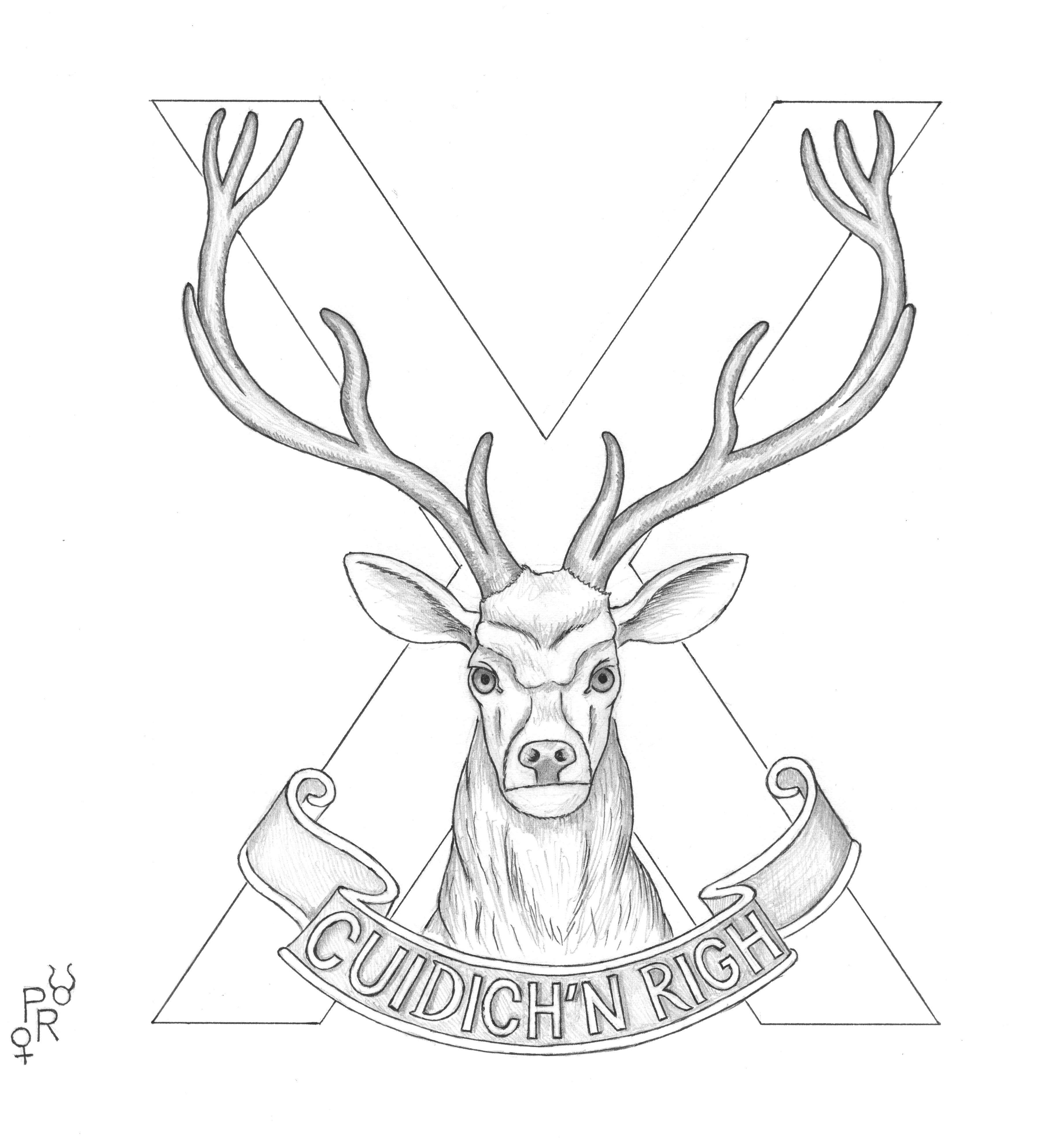 Coat of arms of the Scottish Mountain Brigade